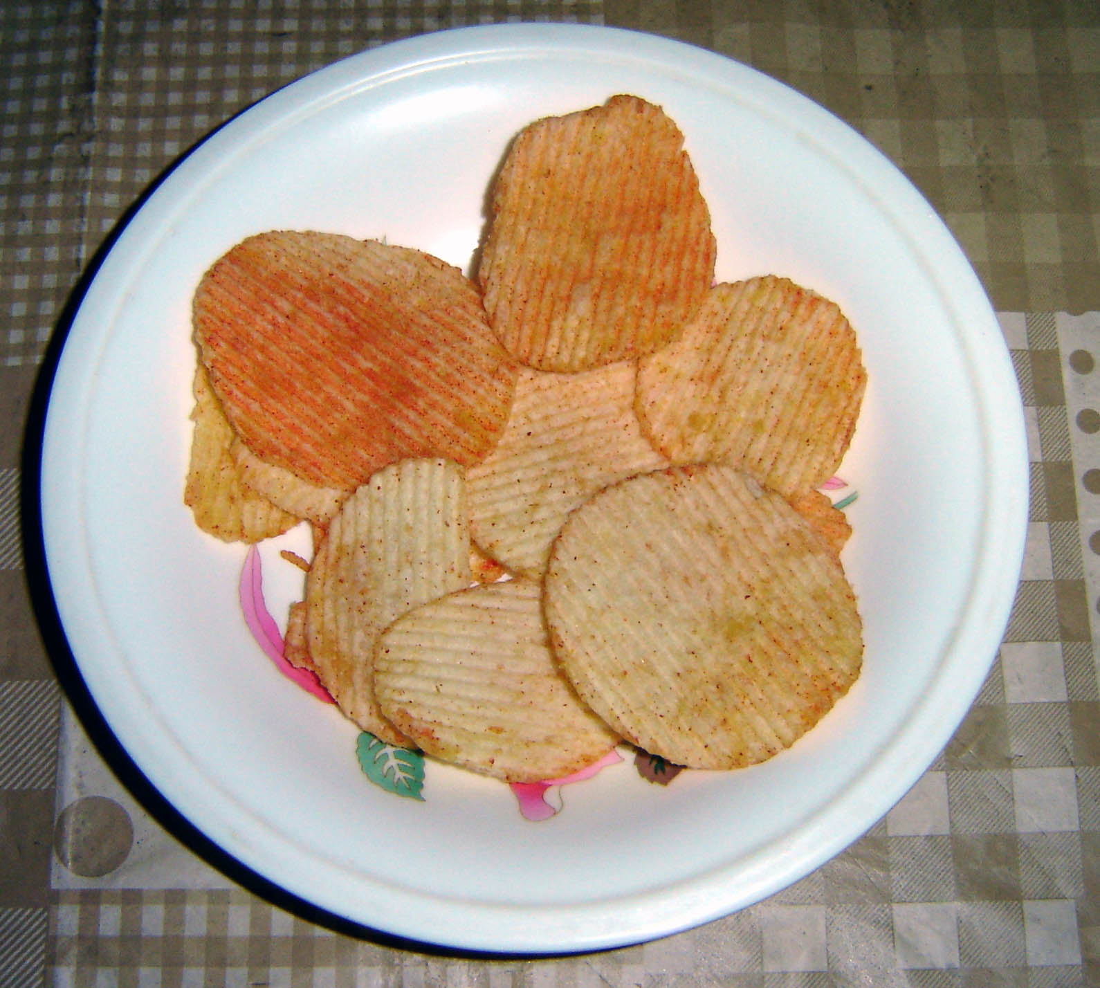 Description: Brazilian Ruffles potato chips, ketchup flavor License: GFDL